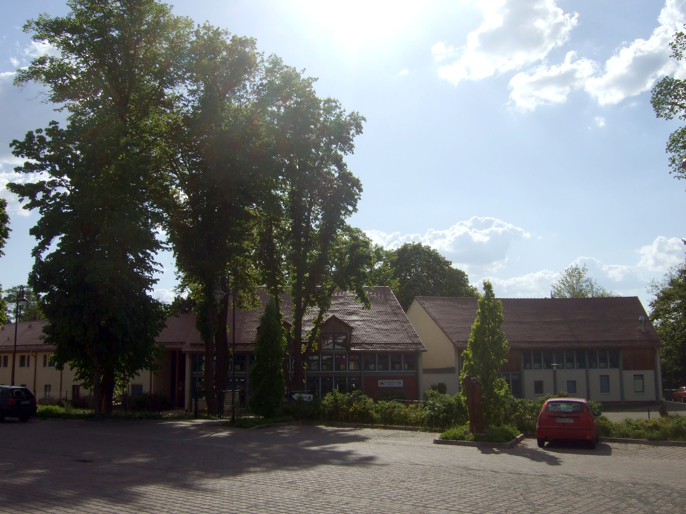 Youth Hostel Wandlitz, Brandenburg, Germany.